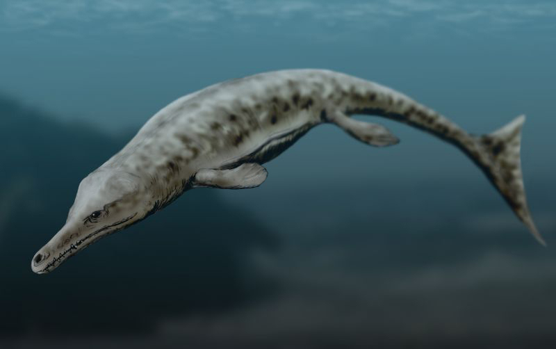 Neptunidraco